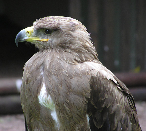 Tawny Eagle in close-up at Combe Martin Wildlife and Dinosaur Park, North Devon, England. Taken by Adrian Pingstone in July 2004 and released to the public domain. first uplöoad in en wikipedia on 21:12, 29 July 2004 by User:Arpingstone